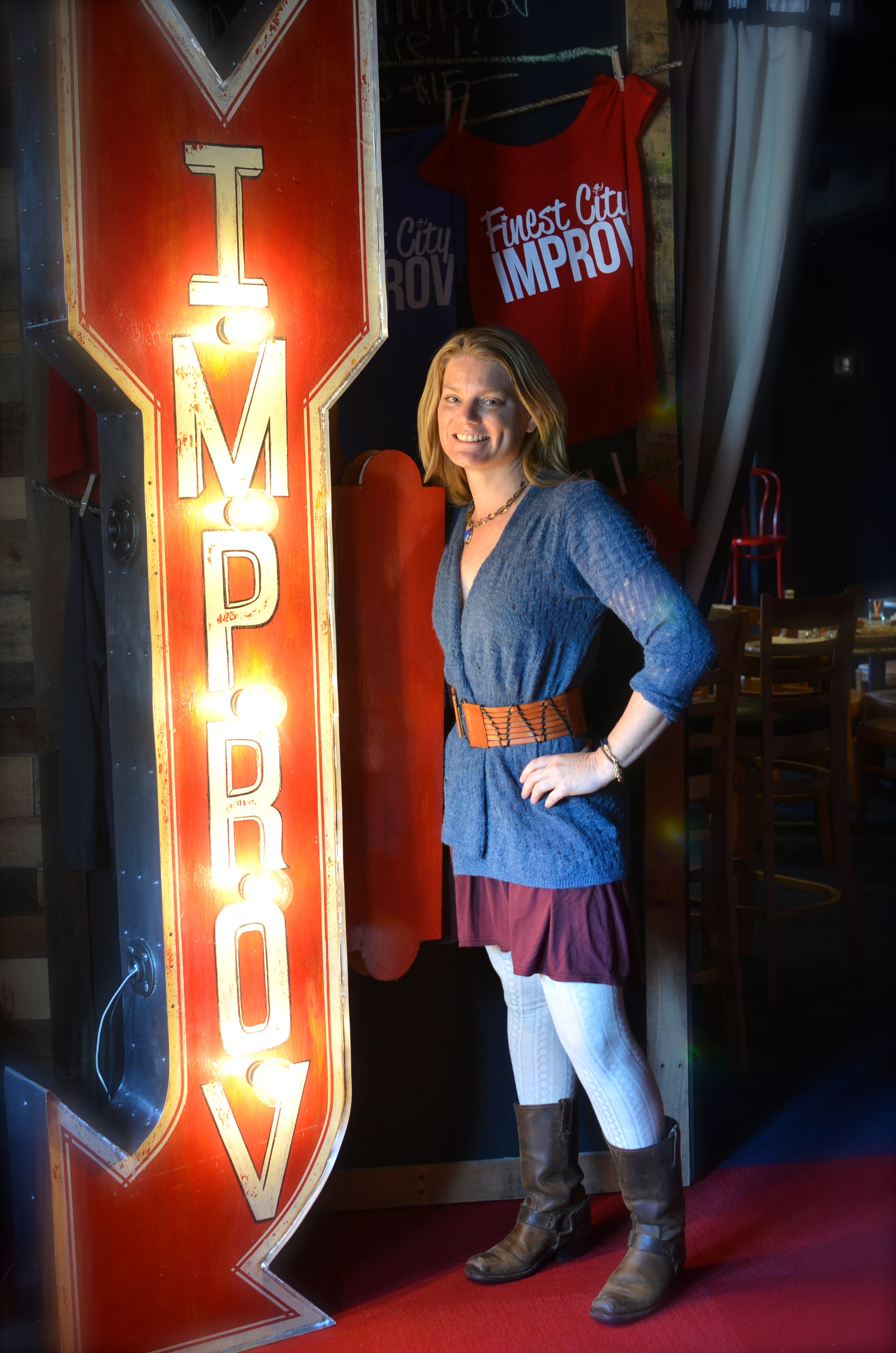 The owner, Amy, with the arrow that leads patrons into the theatre.